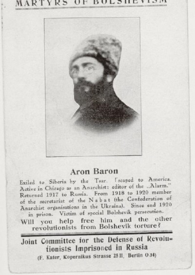 Poster informing of Aaron Baron's condition. Such papers were distributed by anarchists in many countries, including the USA, France and Germany.